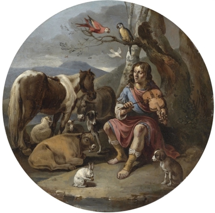 Jacob van Staverden (attributed), Orpheus playing the lyre, oil on copper, circular, 18.6 cm. diam., auctioned by Christies on 25 April 2008